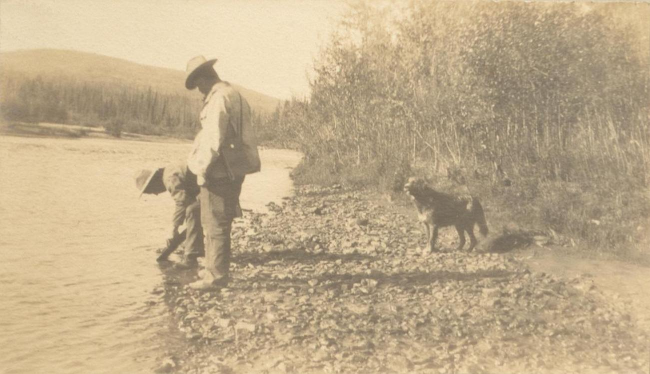 Creator: Tyrrell, Joseph Burr, 1858-1957 Title: Panning on Indian River Date: 1904 Extent: 1 photograph: b&w ; (6 x 10.5cm) Notes: From an album of photographs of the Klondike by Joseph Tyrrell, 1899-1905. Title transcribed from caption. Format: Photograph Rights Info: No known restrictions on access Repository: Thomas Fisher Rare Book Library, University of Toronto, Toronto, Ontario Canada, M5S 1A5, Part of: MS. Coll. 26 Tyrrell (Joseph Burr) Papers. Finding Aid located at